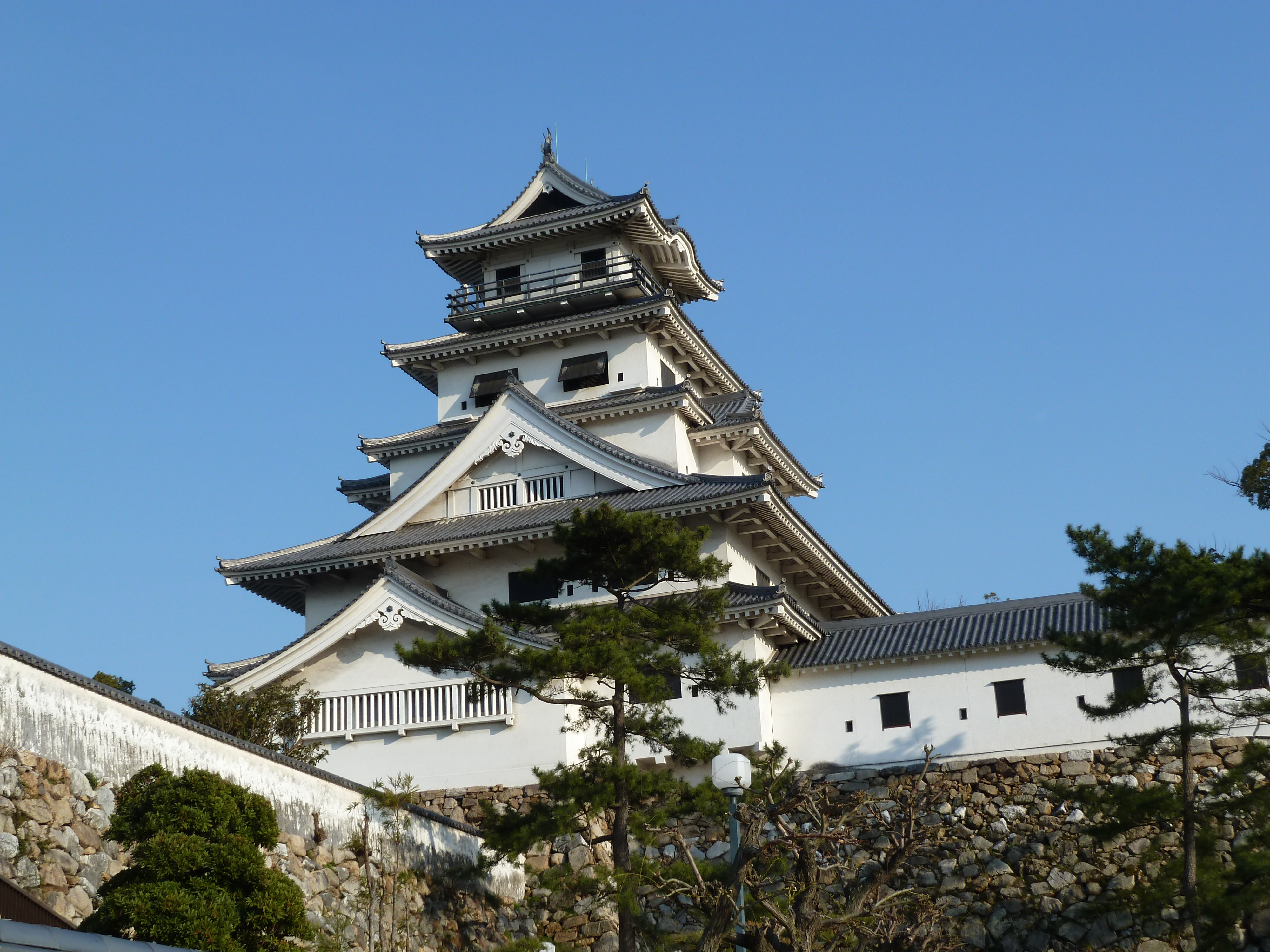 今治城の模擬天守